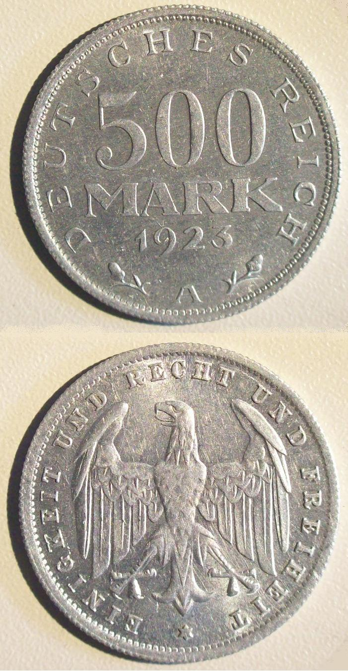 german money from 1923